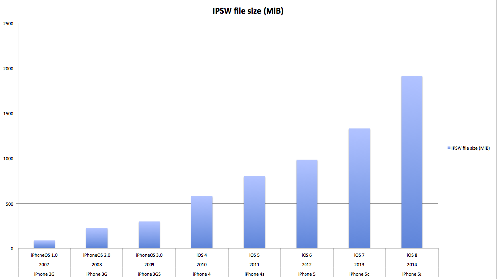 History of the iPhone IPSW file sizes, 2007 - 2014. Based on official Apple IPSW from Apple Download for the latest availible devices.